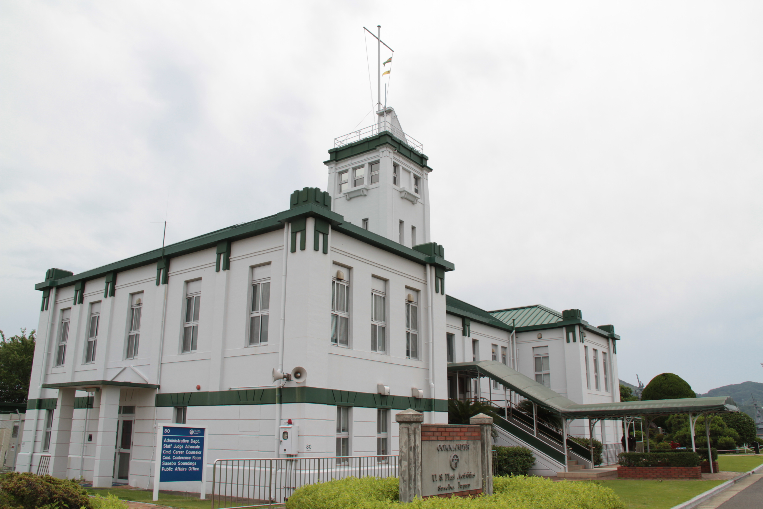 Good building